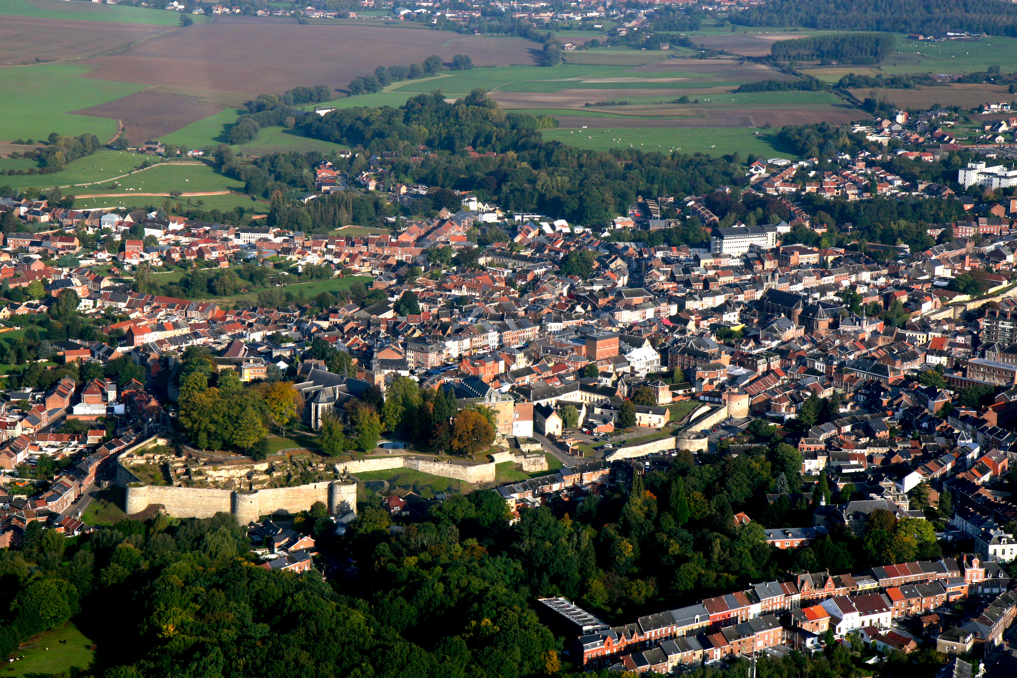 Aerial picture of Binche.